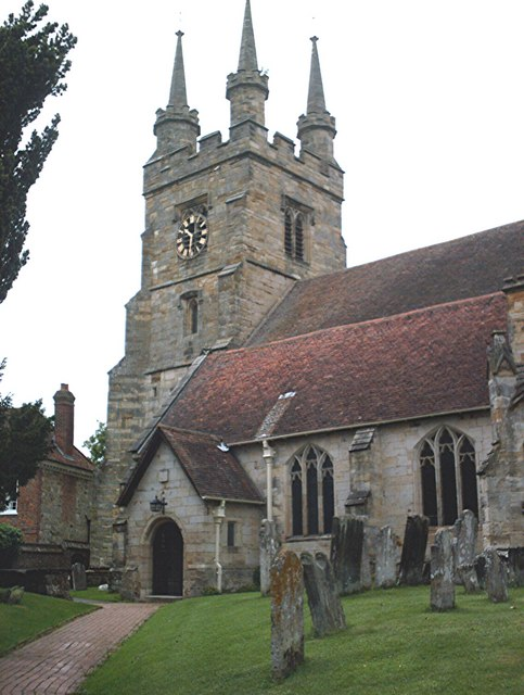 South aisle and west tower of St John the Baptist parish church, Penshurst, Kent, seen from the southeast